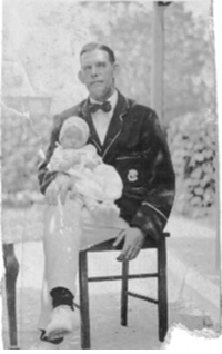 John (Jack) Chamberlain (Sportsman), pictured with his youngest daughter, Annette